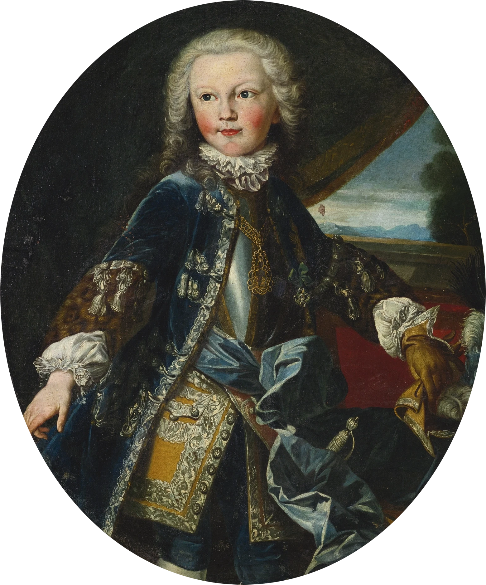 Victor Amadeus III of Sardinia (1726-1796). Jan 29 2016 oil on canvasmedium QS:P186,Q296955;P186,Q12321255,P518,Q86125985 * 71.5 cm